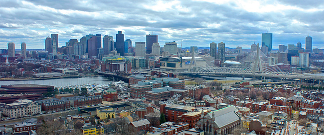 Picture of the boston skyline in 2014 from the bunker hill monument